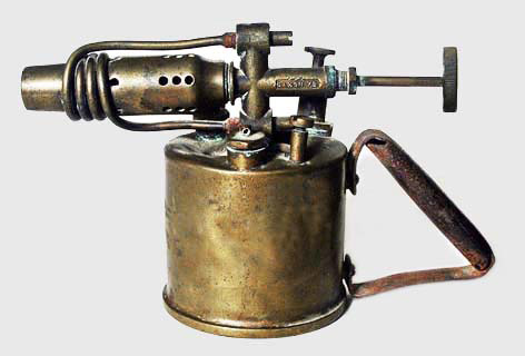 Old Gas blowtorch.